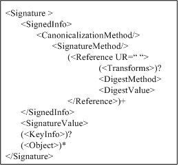 Nenshkrimet digjitale